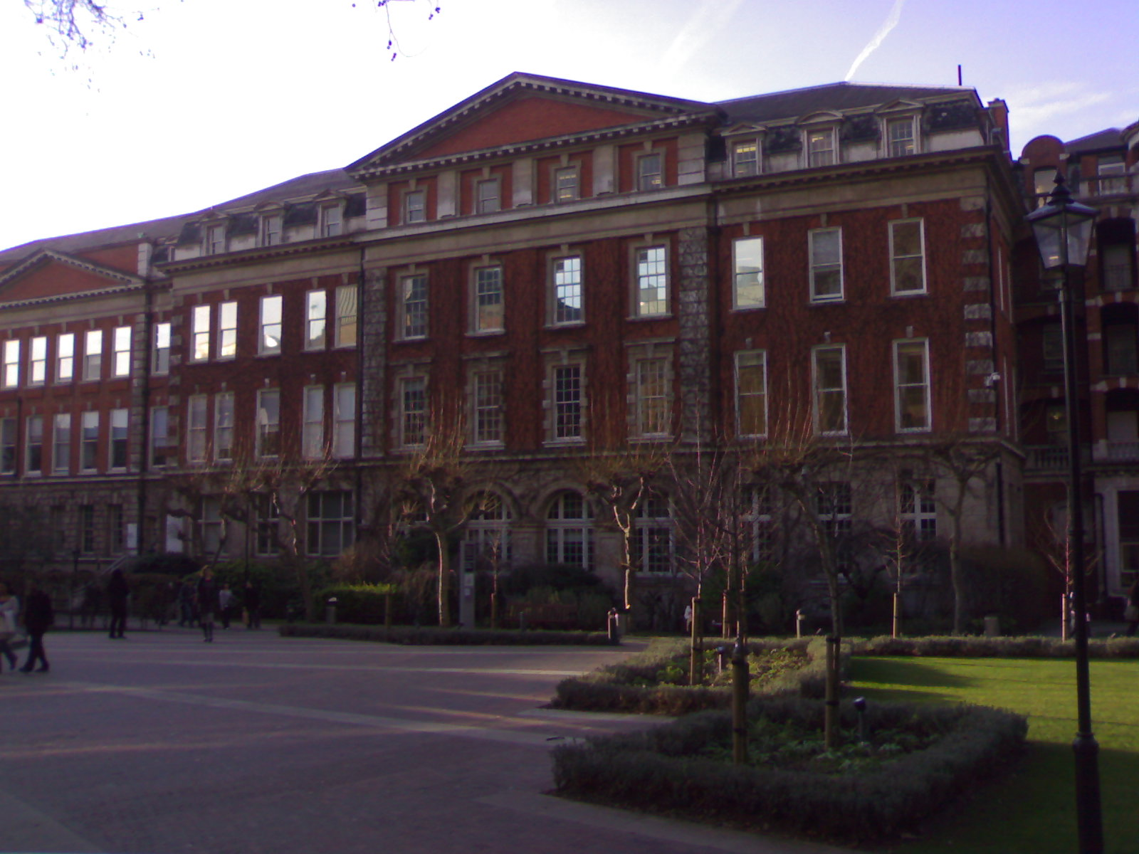 Hodgkin Building, Guy's Campus